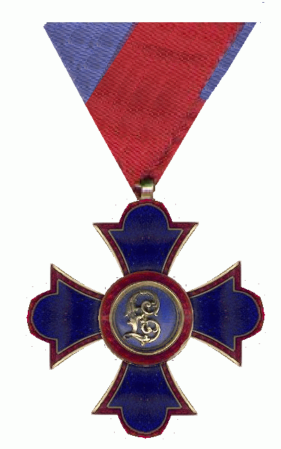 Vorstelijke Orde van Verdienste van Liechtenstein, Ridderkruis